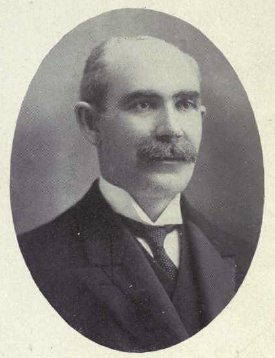 Robert Rogers Title: Representative men of Manitoba : history in portraiture; a gallery of men, whose energy, ability, enterprise and public spirit have produced the marvellous record of the Prairie Province Publisher: Winnipeg, Tribune Date: 1902 Possible Copyright Status: NOT_IN_COPYRIGHT